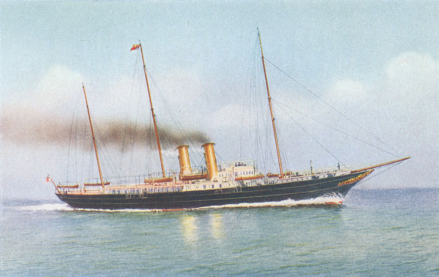 Turbine Yacht HMY Alexandra, a British Royal Yacht built in 1907 for HM King Edward VII by River Clyde shipbuilders A. & J. Inglis, Pointhouse Shipyard, Glasgow, Scotland and completed in 1908. 2000 tons, 4,500 hp, 19 knots